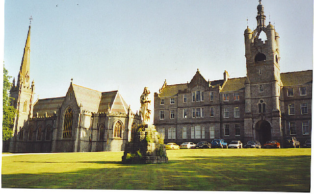 Sunset at Blairs College. Blairs College was formerly a seminary for Catholic priests. It now houses a museum.